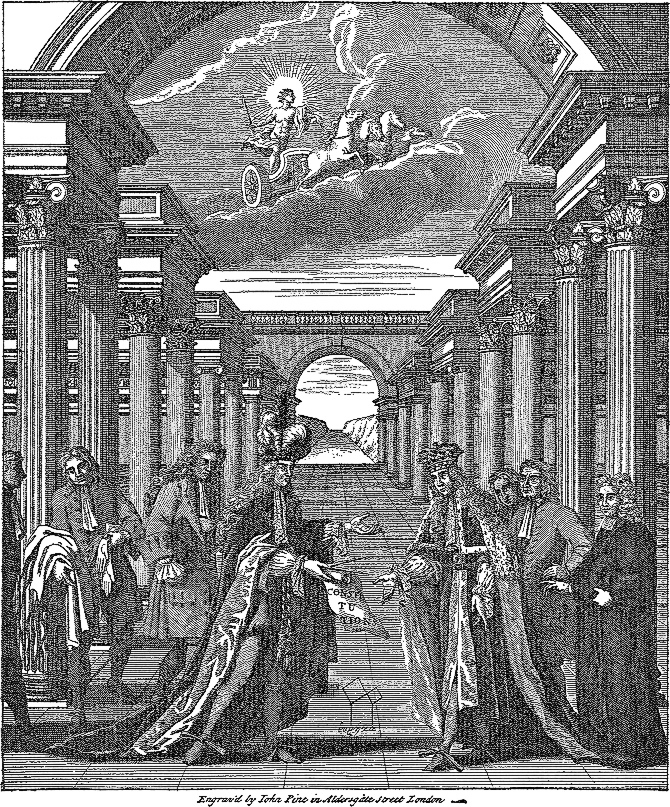 John Montague, 2nd Duke of Montagu presenting the Constitutions and the compasses to Philip, Duke of Wharton. Rev. Dr. John Desaguliers at the far right.